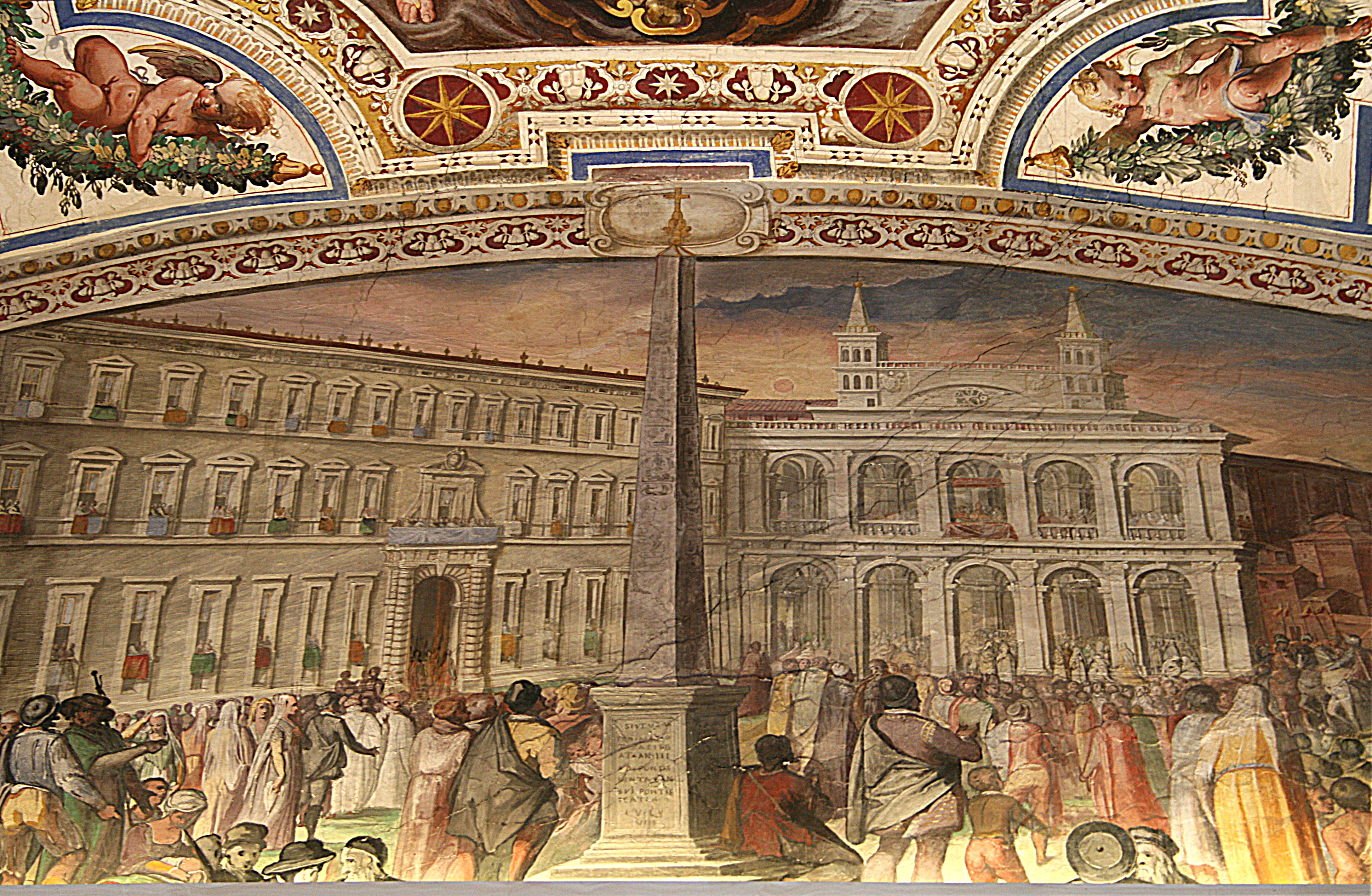 Sale Sistine II adorned with a mural fresco depicting the obelisc of the San Givani in Laterano place, the Lateran Palace and the Basilica of St. John Lateran - Hall of Papal Archives - Domenico Fontana.